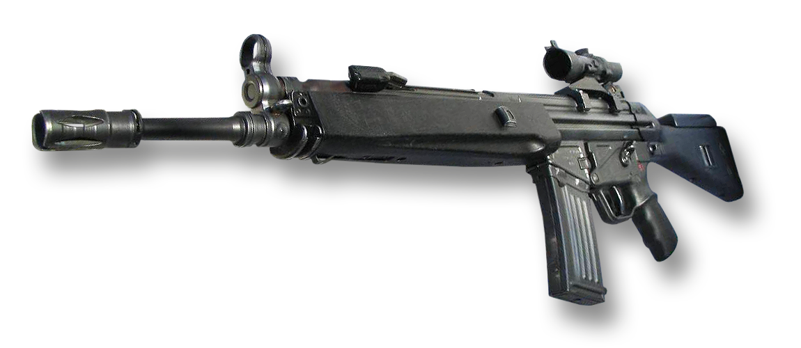 Heckler & Koch HK33A2 with Trijicon Compact ACOG